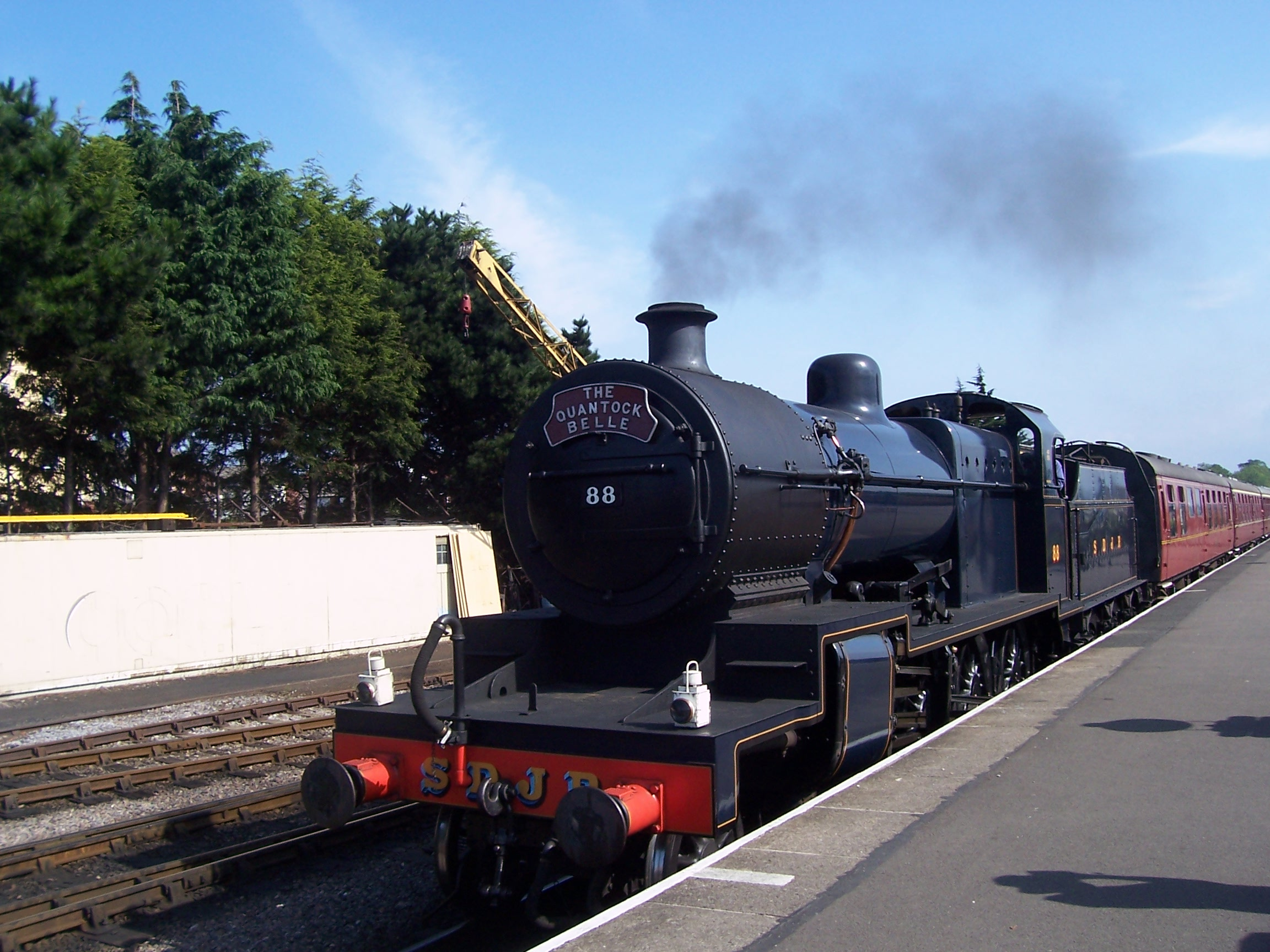 88 pulls into Minehead Pulling the Quantock belle